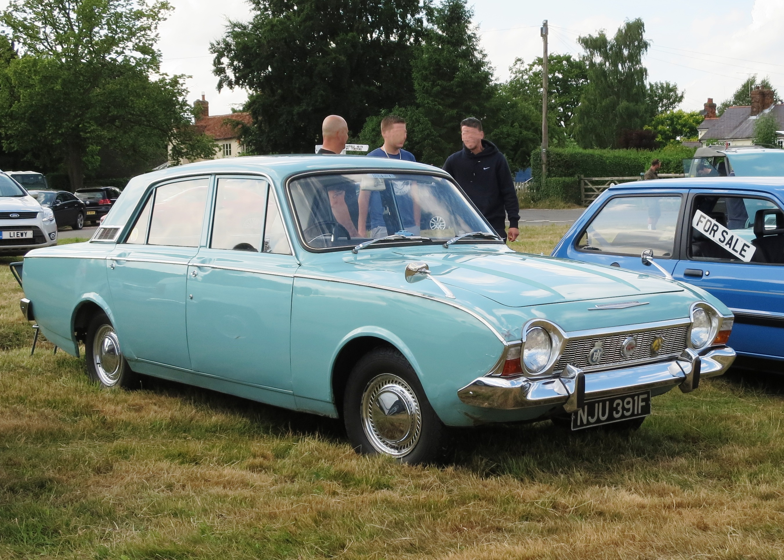 Ford Corsair V4 (1968)